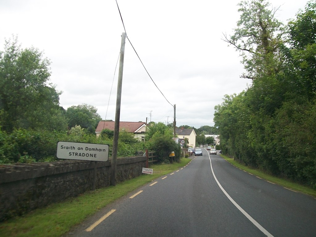 Entering Stradone on the R165 (Radharc Na Habhann) road